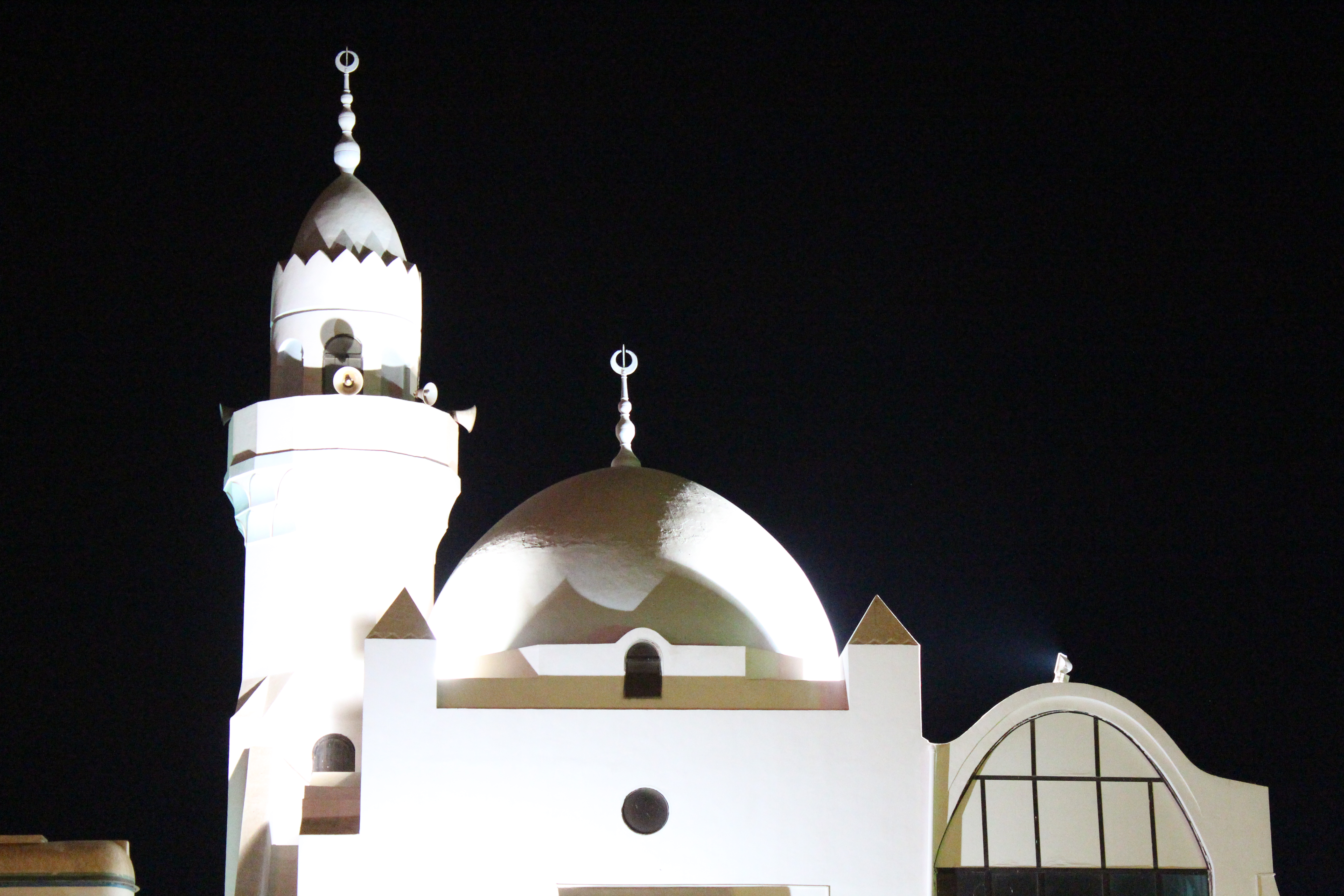 Night view of the upper part of the Corniche Mosque in Jeddah, Saudi Arabia